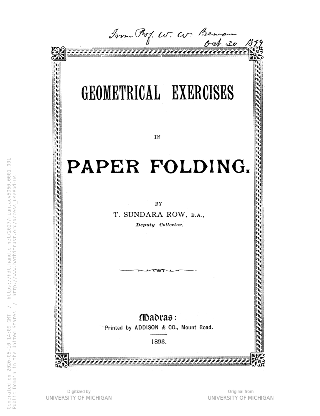 Title page of Geometrical Exercises in Paper Folding by T. Sundara Row from first 1893 edition on HathiTrust